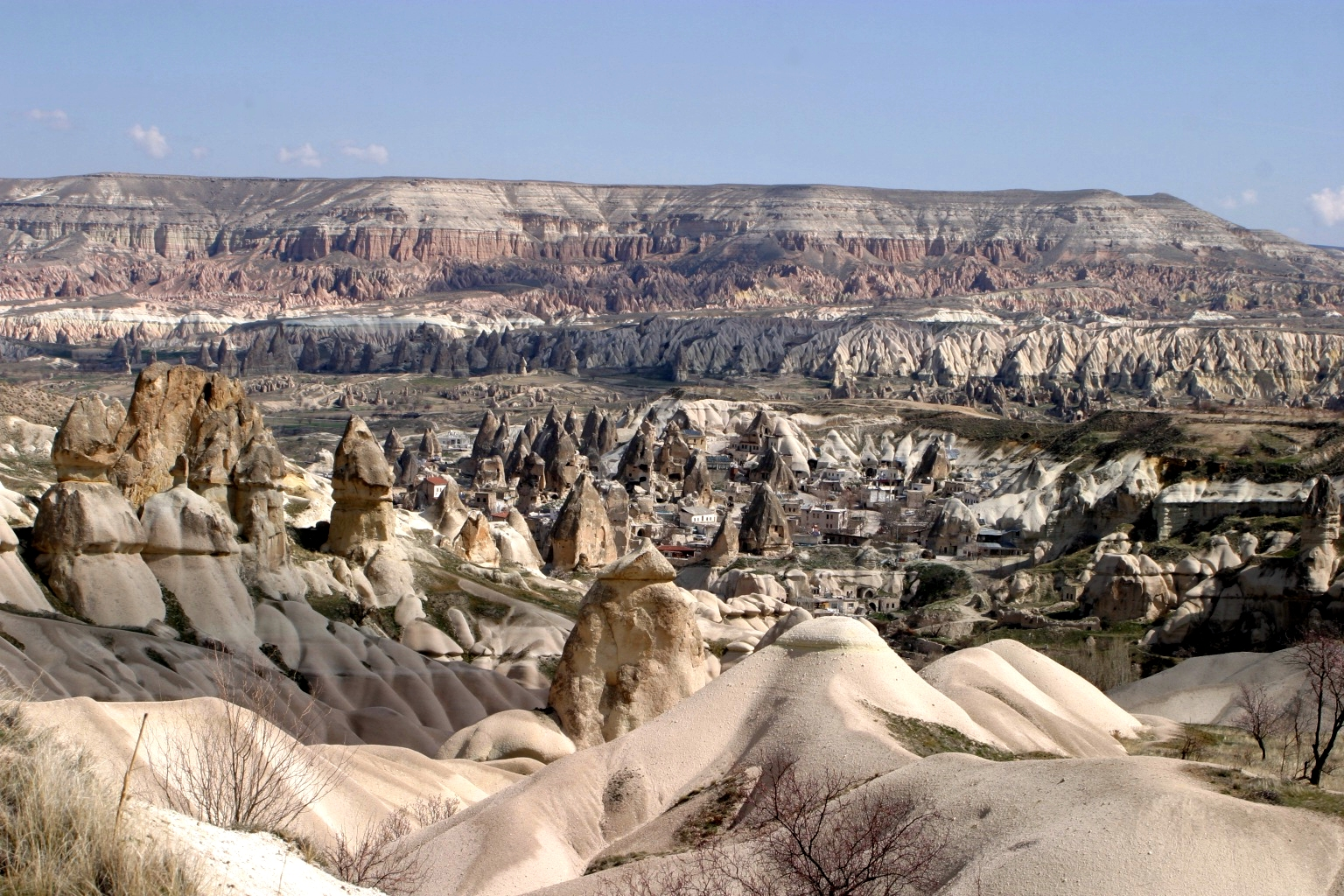 Cappadocia by Brocken Inaglory. The picture was taken in April of 2006.